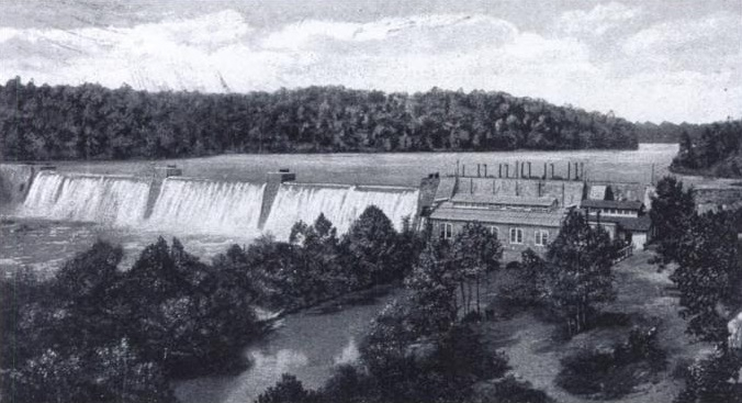 Portman Shoals Power Plant, Seneca River